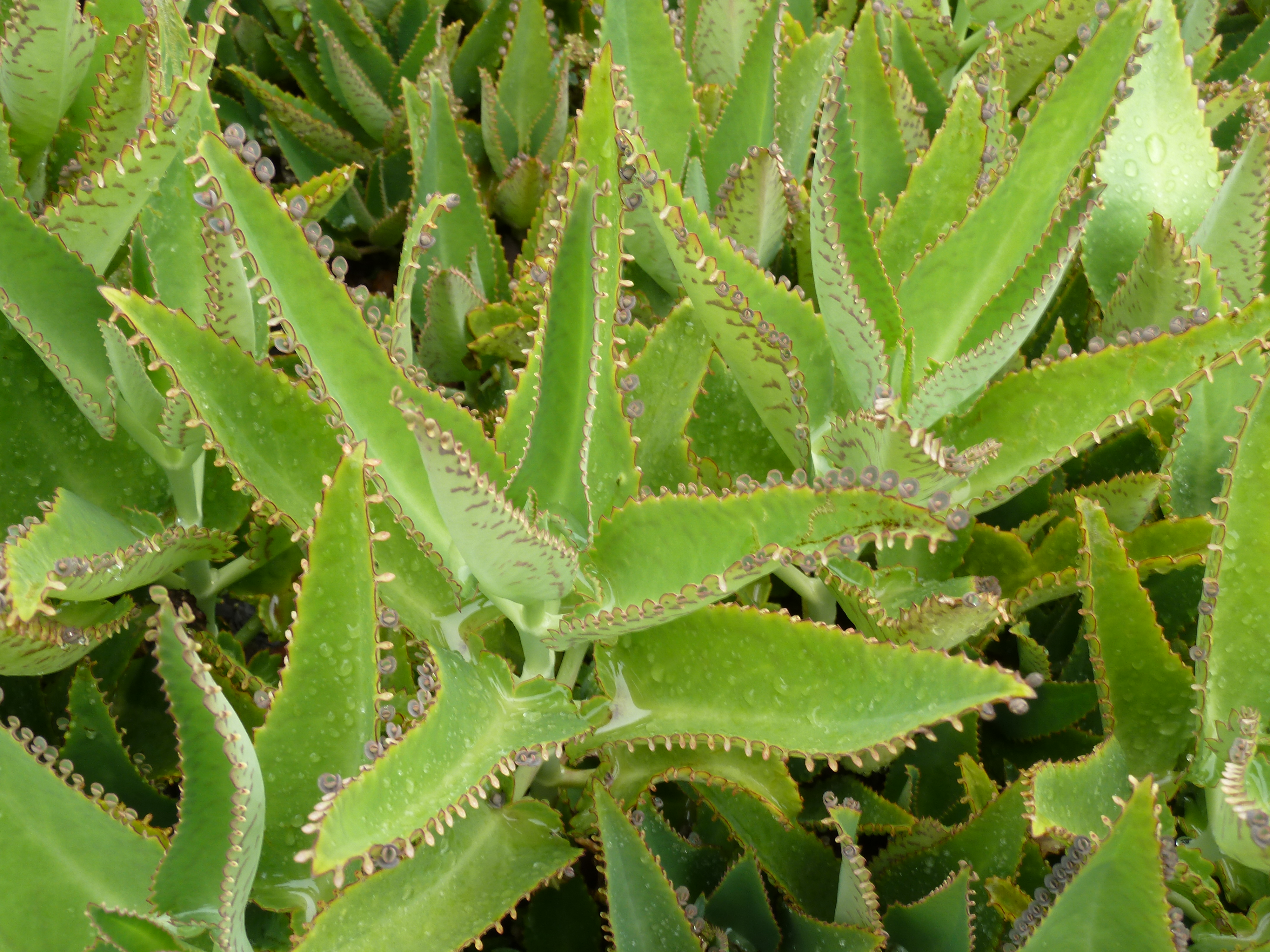 Mother of thousands plants at the University of Pretoria